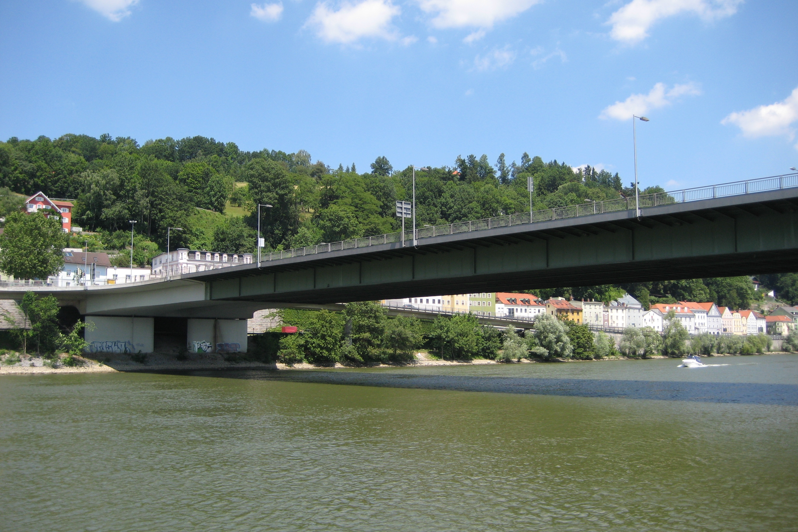 Schanzlbrücke over the Danube in Passau